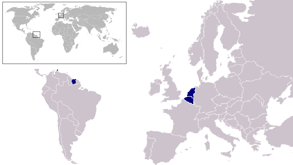 The member states of the Dutch Language Union.